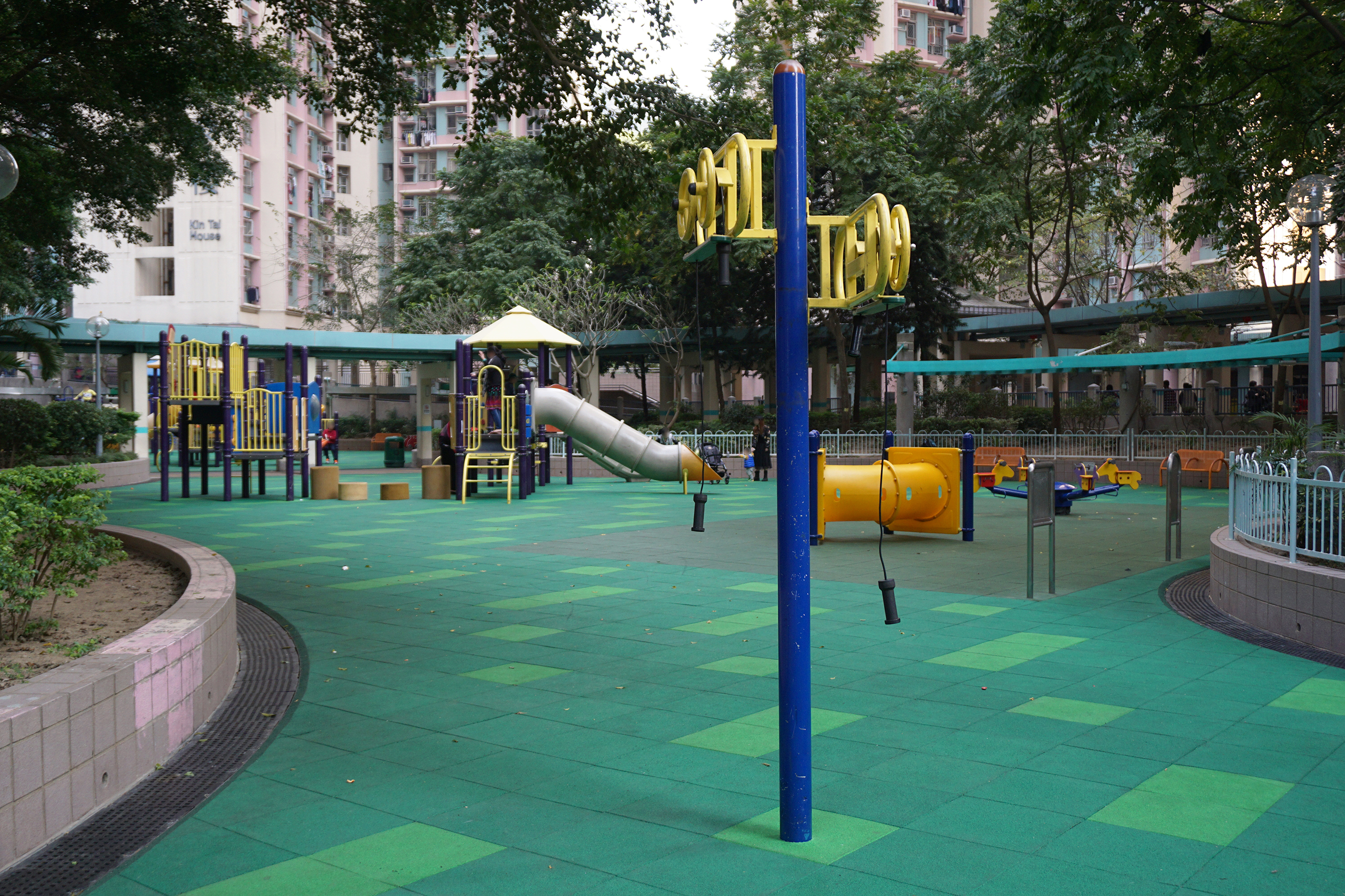 Fu Tai Estate in Tuen Mun, Hong Kong.